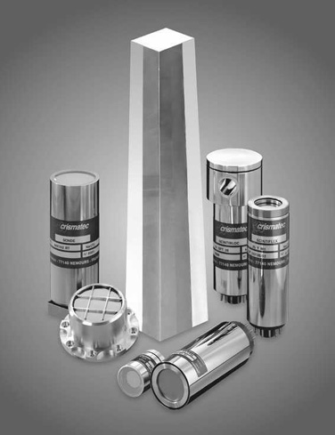 A scintillation crystal surrounded by various packaged scintillation products.